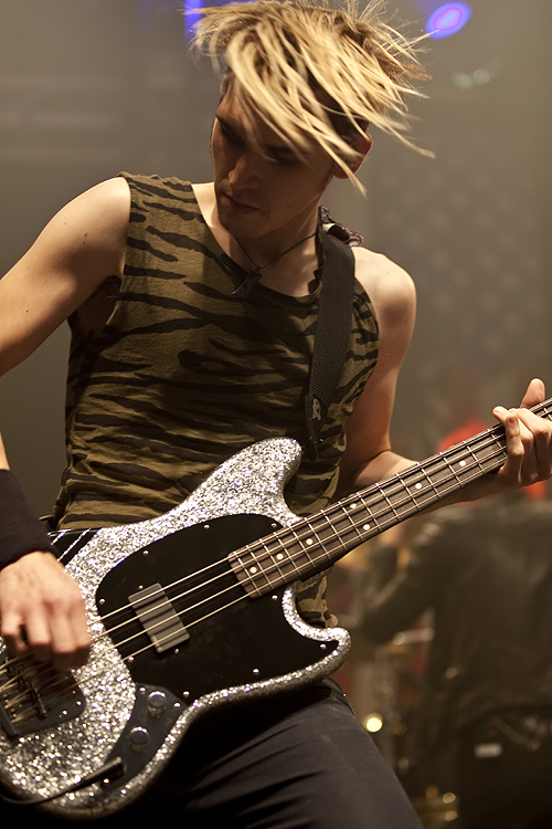 Real name: Michael James Way Born: September 10, 1980 (36 years) Origin: Newark, New Jersey Spouse Alicia Simmons (2007 - 2013) Kristen Way (2016 - present) Bassist Occupation Instrumentalist